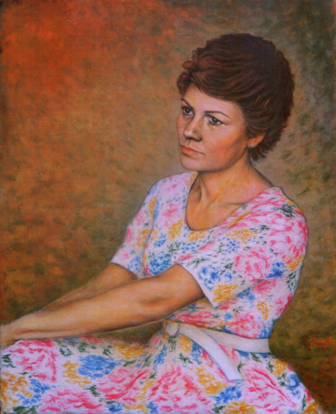 Portrait of Anna